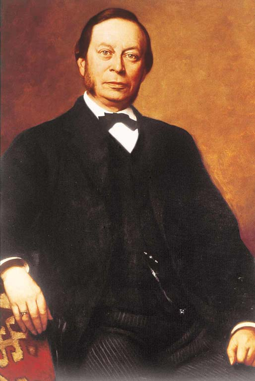 Eduard Freiherr von Oppenheim (1831–1909), German banker and stud owner.